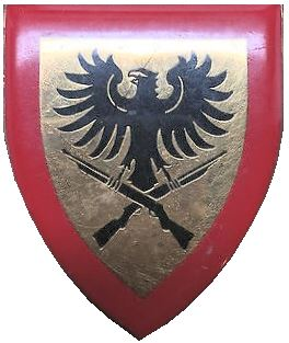 SWATF 913 Battalion shoulder flash